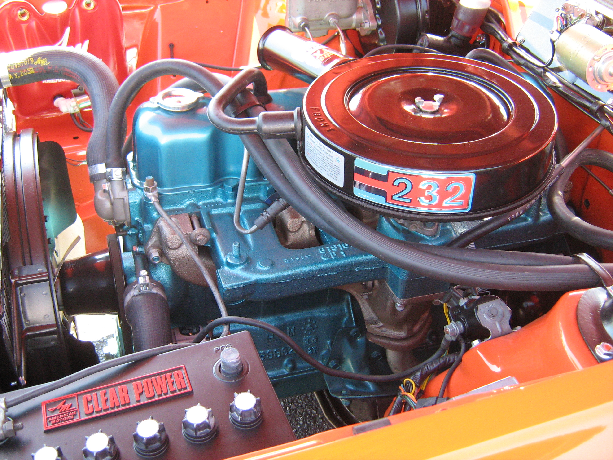 1971 AMI Rambler Gremlin assembled in Australia by Australian Motor Industries (AMI). The automobile is from a complete knock down (CKD) kit from American Motors Corporation (AMC).